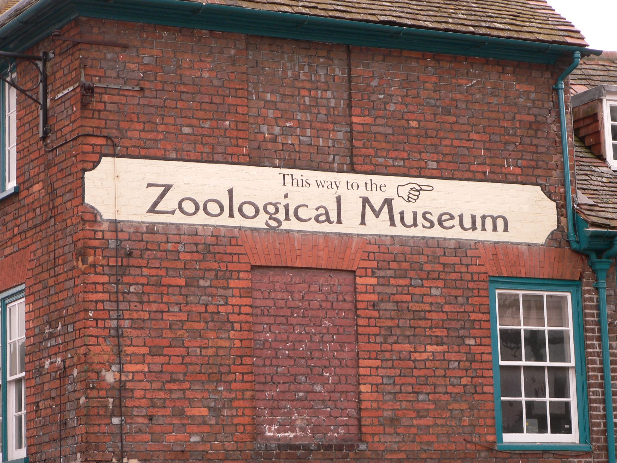 This way to the Zoological Museum, Tring.